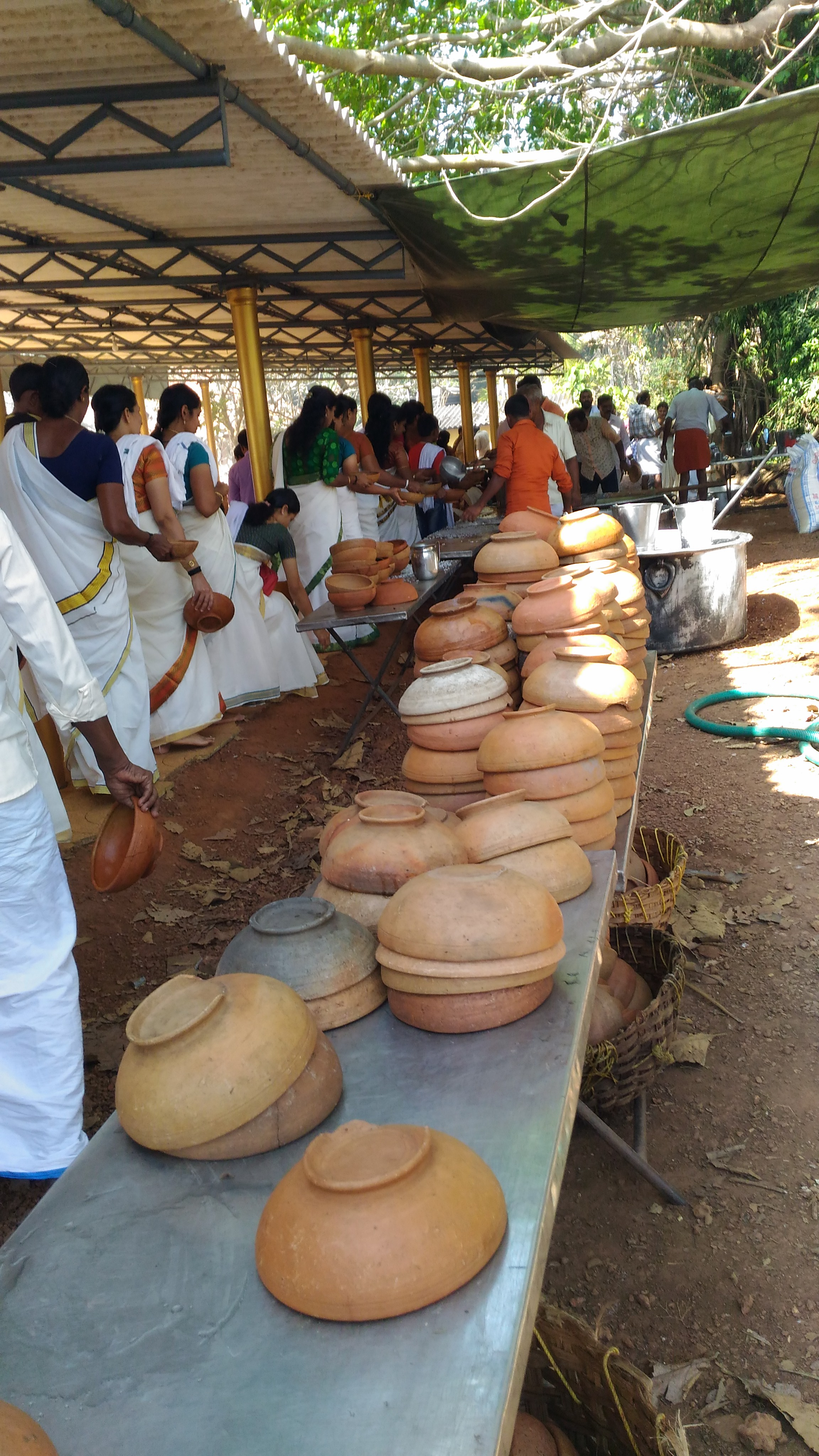 Earthenware bowl